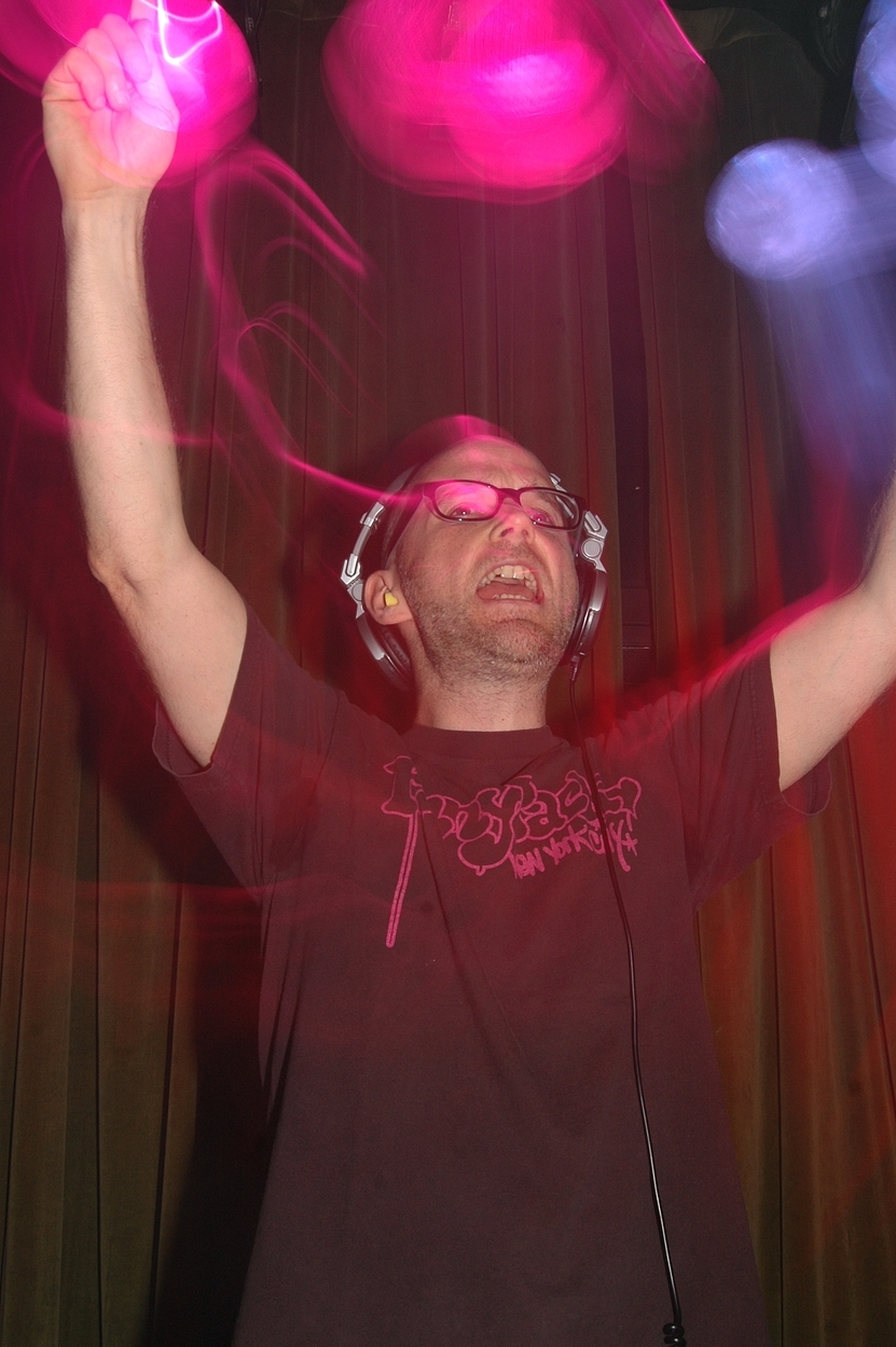 Moby @ Hiro Ballroom In New York City, NY